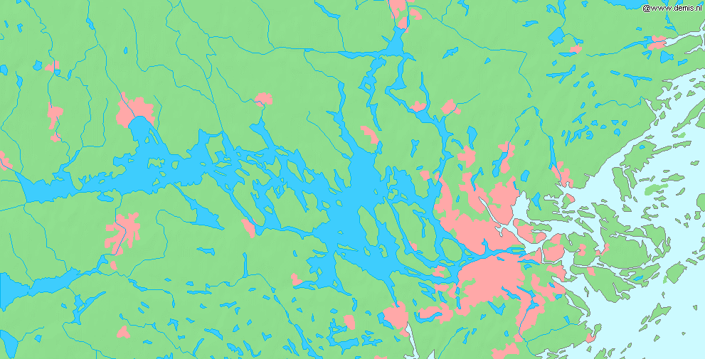 Lake Mälaren in Sweden. Bounding box West 16°, South 59.1°, East 18.9°, North 59.85°. Center at 59°28′30″N 17°27′00″E / 59.47500°N 17.45000°E.